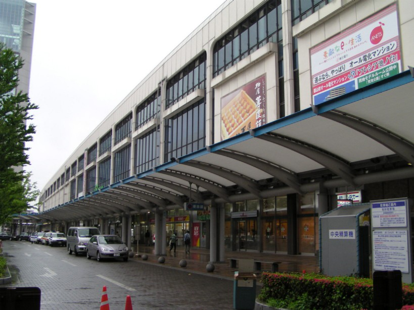 Koriyama Station in Fukushima Prefecture, Japan